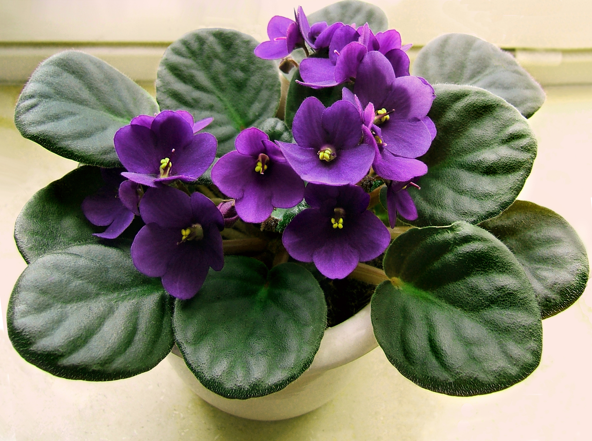 African violet нохчийн: Africká fialka